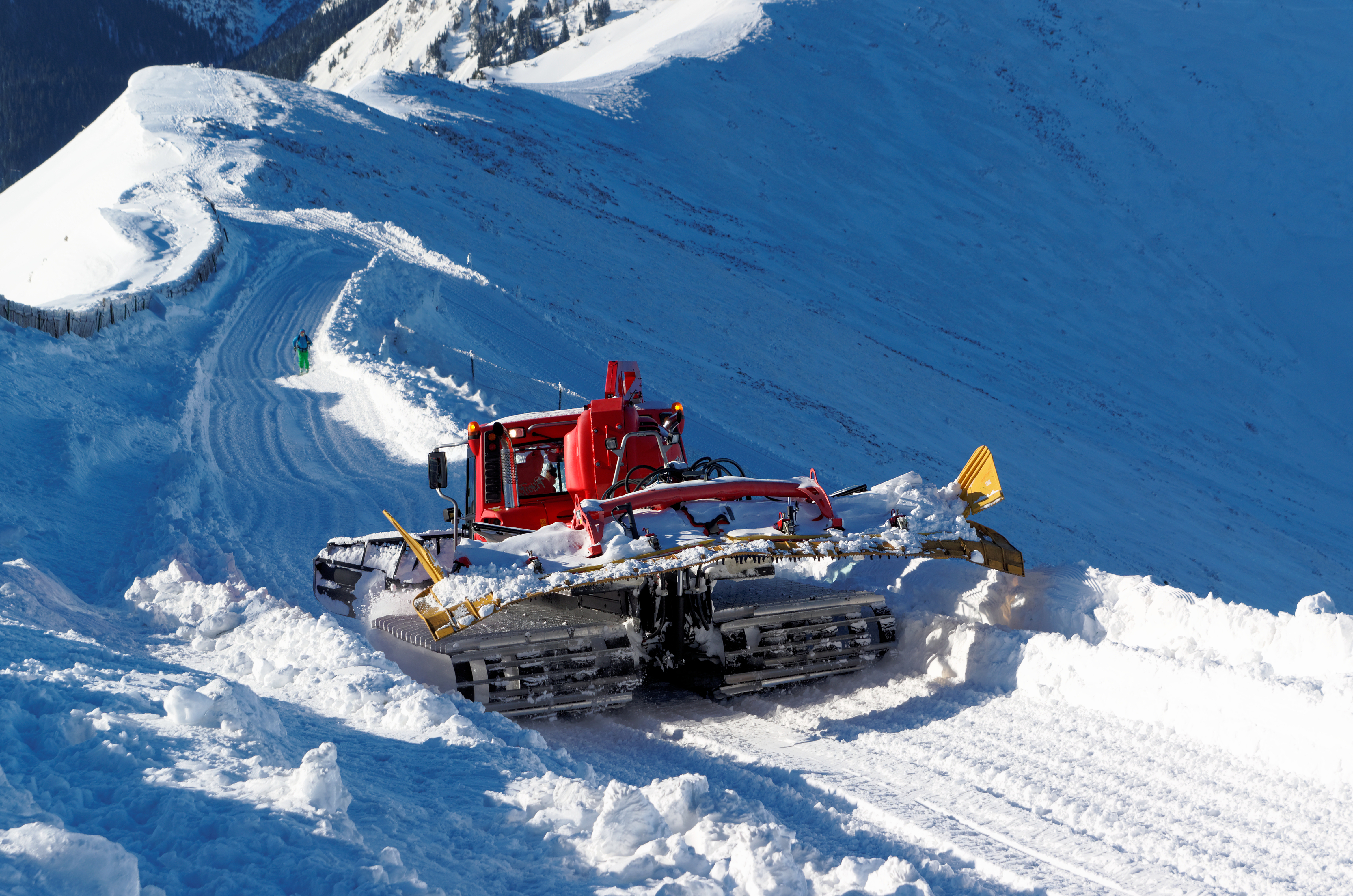 Snow groomer Pistenbully on Kasprowy Wierch in Tatra Mountains